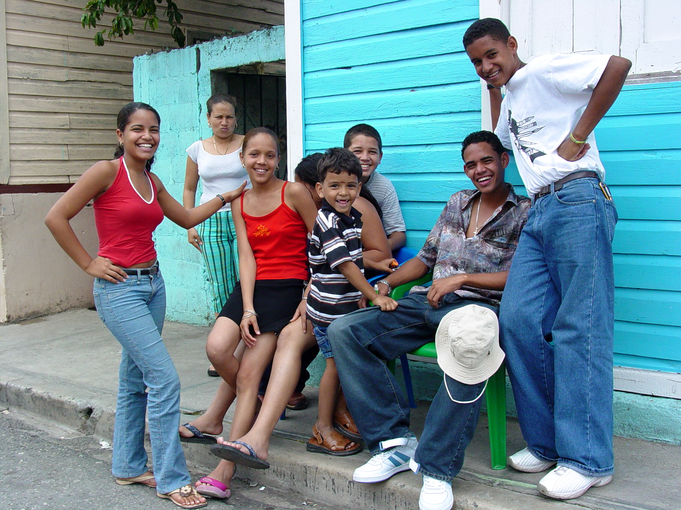 Friendly Folk on the Street - San Jose de Ocoa - Dominican Republic